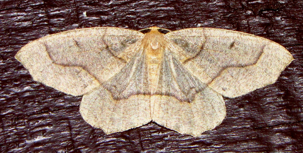 Hemlock Looper (Lambdina fiscellaria), Bon Echo Provincial Park, Ontario, Canada